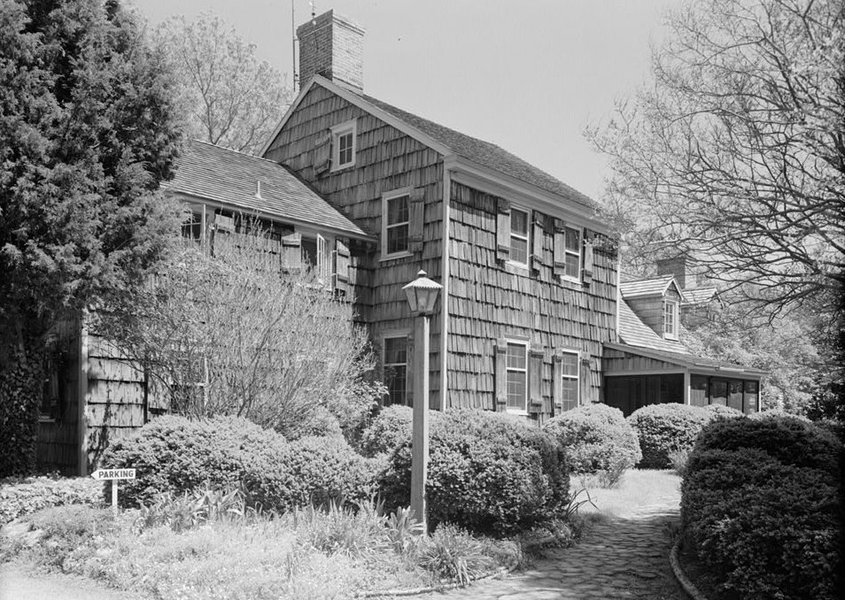 Peter Marsh House, 10 Dodd's Lane, Rehoboth Beach vicinity (Sussex County, Delaware) cropped This file comes from the Historic American Buildings Survey (HABS), Historic American Engineering Record (HAER) or Historic American Landscapes Survey (HALS). These are programs of the National Park Service established for the purpose of documenting historic places. Records consist of measured drawings, archival photographs, and written reports. When reusing please credit: Library of Congress, Prints & Photographs Division, DEL,3-REHOB,1-1 This tag does not indicate the copyright status of the attached work. A normal copyright tag is still required. See Commons:Licensing for more information. English | +/− This work is in the public domain in the United States because it is a work prepared by an officer or employee of the United States Government as part of that person’s official duties under the terms of Title 17, Chapter 1, Section 105 of the US Code. See Copyright. Note: This only applies to original works of the Federal Government and not to the work of any individual U.S. state, territory, commonwealth, county, municipality, or any other subdivision. This template also does not apply to postage stamp designs published by the United States Postal Service since 1978. (See 206.02(b) of Compendium II: Copyright Office Practices). It also does not apply to certain US coins; see The US Mint Terms of Use. This file has been identified as being free of known restrictions under copyright law, including all related and neighboring rights. Object location 38° 43′ 30.0″ N, 75° 5′ 11.0″ W This and other images at their locations on: Google Maps - Google Earth - OpenStreetMap - Proximityrama(Info)